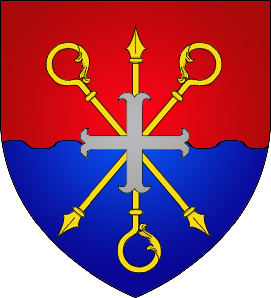 Coat of arms of the municipality of Rosport, Luxembourg